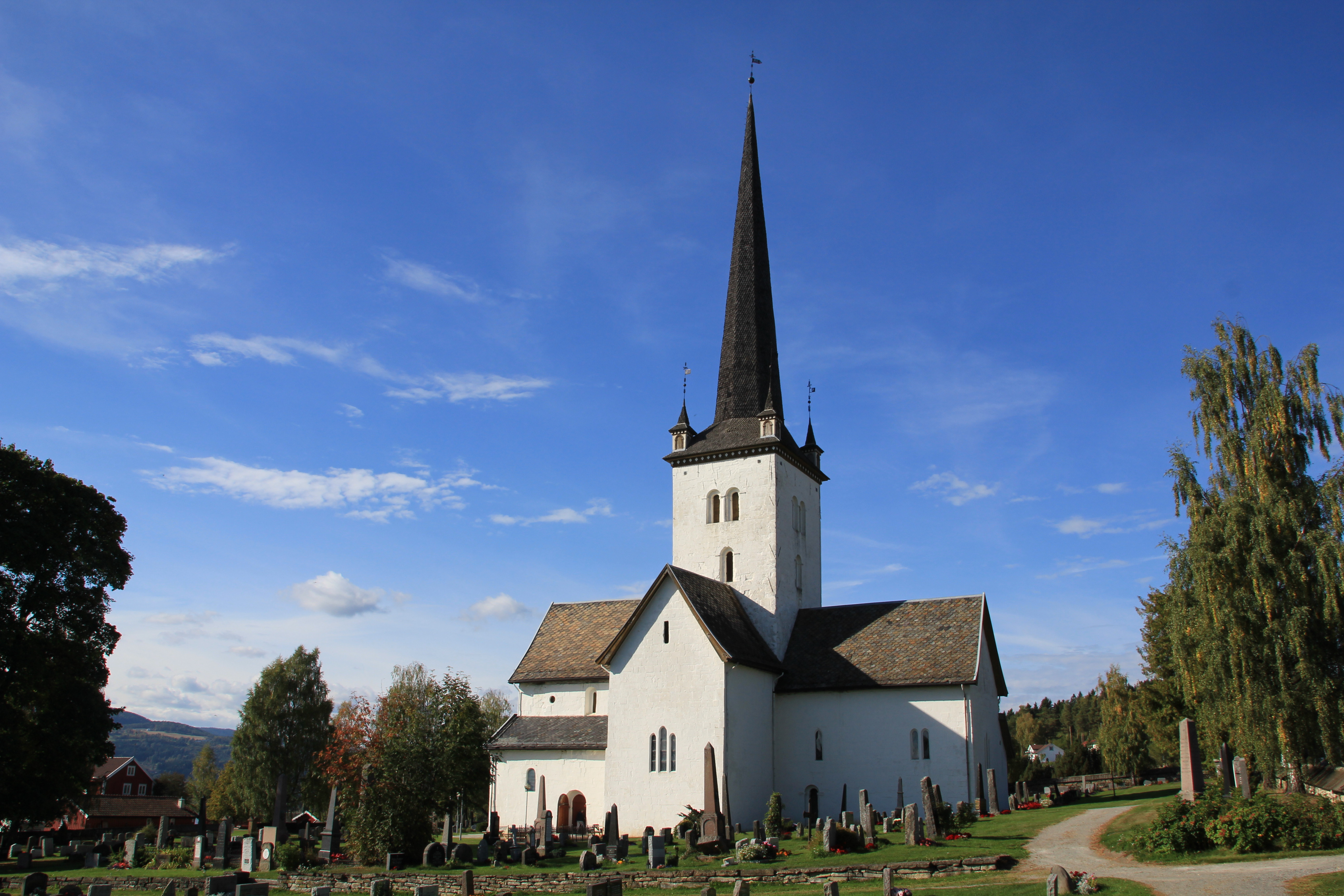 Ringsaker medieval church, Hedmark, Norway.